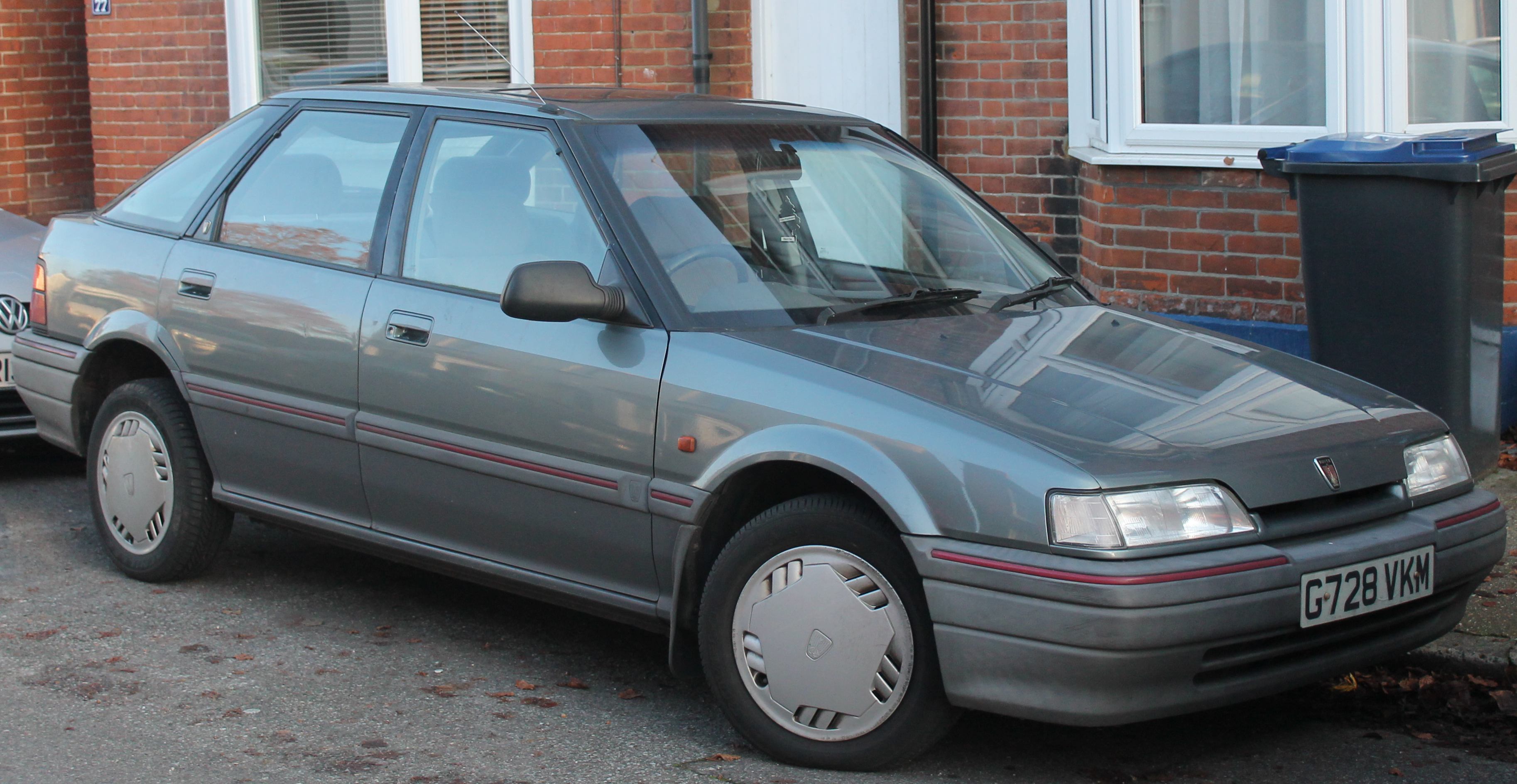 I think all the pre-facelift 200s are well worth a photo nowadays. I was hoping this G reg example was one of the very early 1989 cars, sadly it's 'only' a 1990 model, but still nice enough. In my opinion still loooks very sharp for nearly 25 years of age, and is kept in good nick too. Registration number: G728 VKM ✔ Taxed Tax due: 01 February 2015 ✔ MOT Expires: 02 January 2015